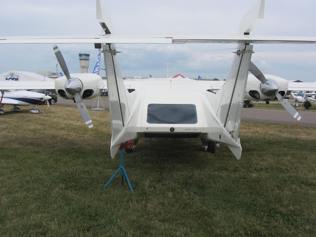 OMA SUD Skycar